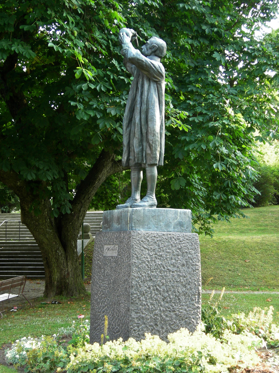 Monument to Carl Wilhelm Scheele by Carl Milles in Köping (Sweden)